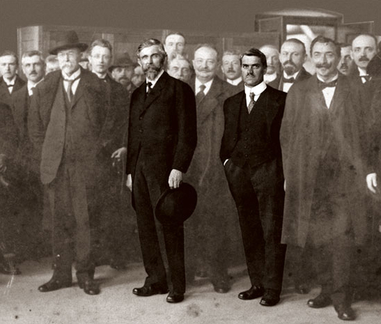 Václav Klement (left) and Václav Laurin (right), founders of Czech automobile manufacturer Laurin & Klement.